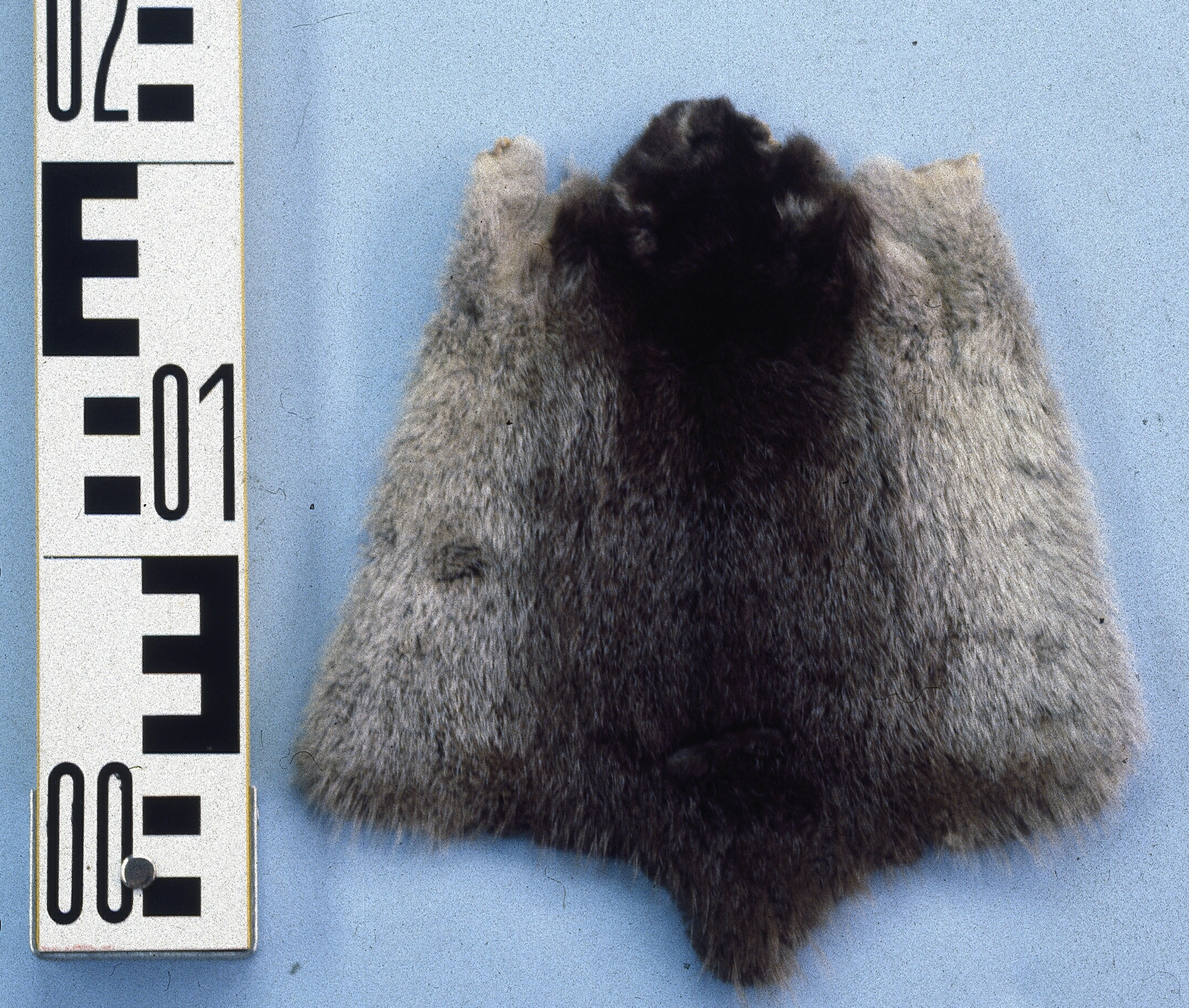 Russian desman (Desmana moschata). Fur skin collection, Bundes-Pelzfachschule, Frankfurt/Main, Germany